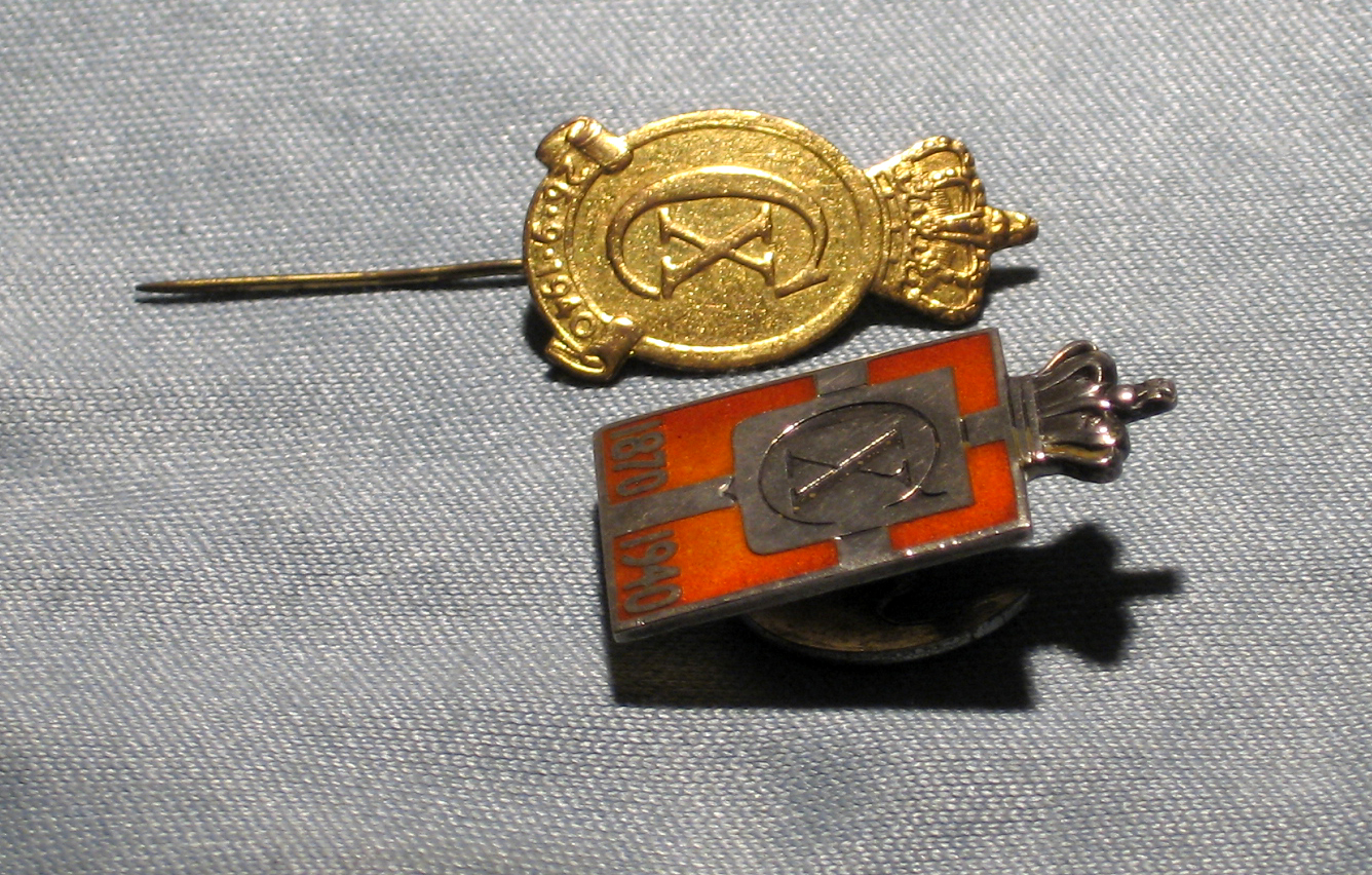 Kongenål (up) and Konge-Emblem (down) from Denmark. Made for king Christian X's 70th birthday in 1940 and very commonly used during the German occuppation